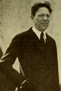 American film director Maxwell Karger (1879 – 1922), on page 812 of the May 10, 1919 Moving Picture World.